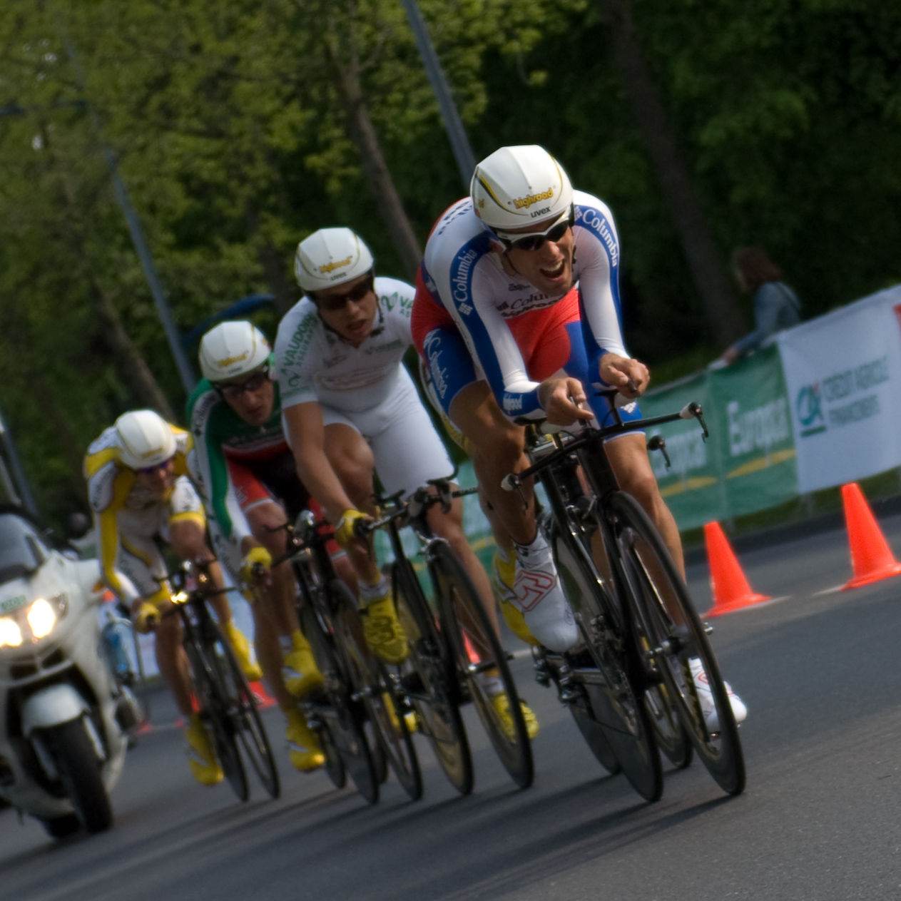 Tour de Romandie 2009 - 3rd stage - team time trial